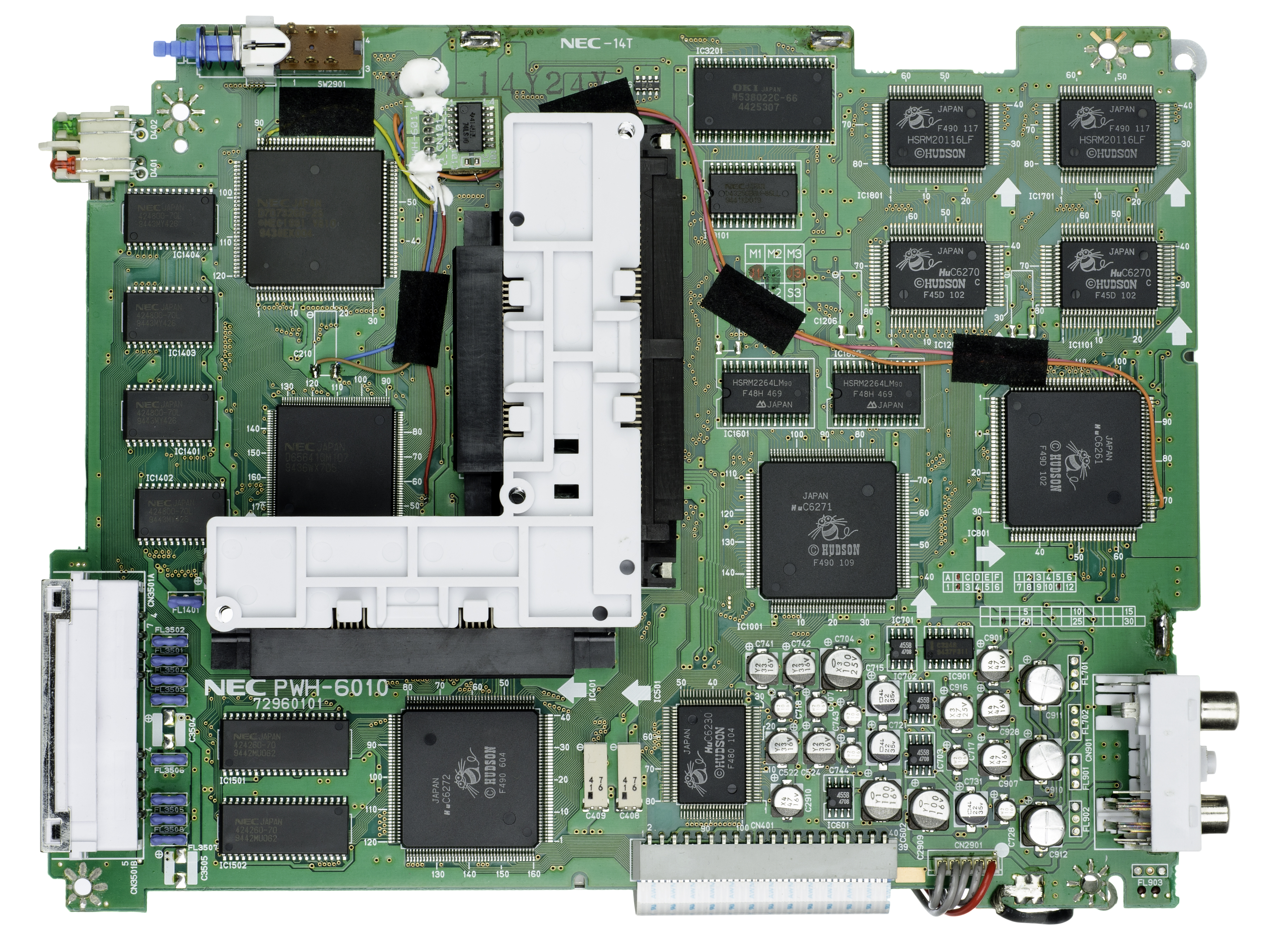 The motherboard for a NEC PC-FX video game console, which has been modded. The PC-FX is a fifth-generation gaming console by NEC. Released only in Japan in 1994, the PC-FX was an unsuccessful follow-up to the PC Engine console line. It was a CD-based system whose design was reminiscent of a PC tower.